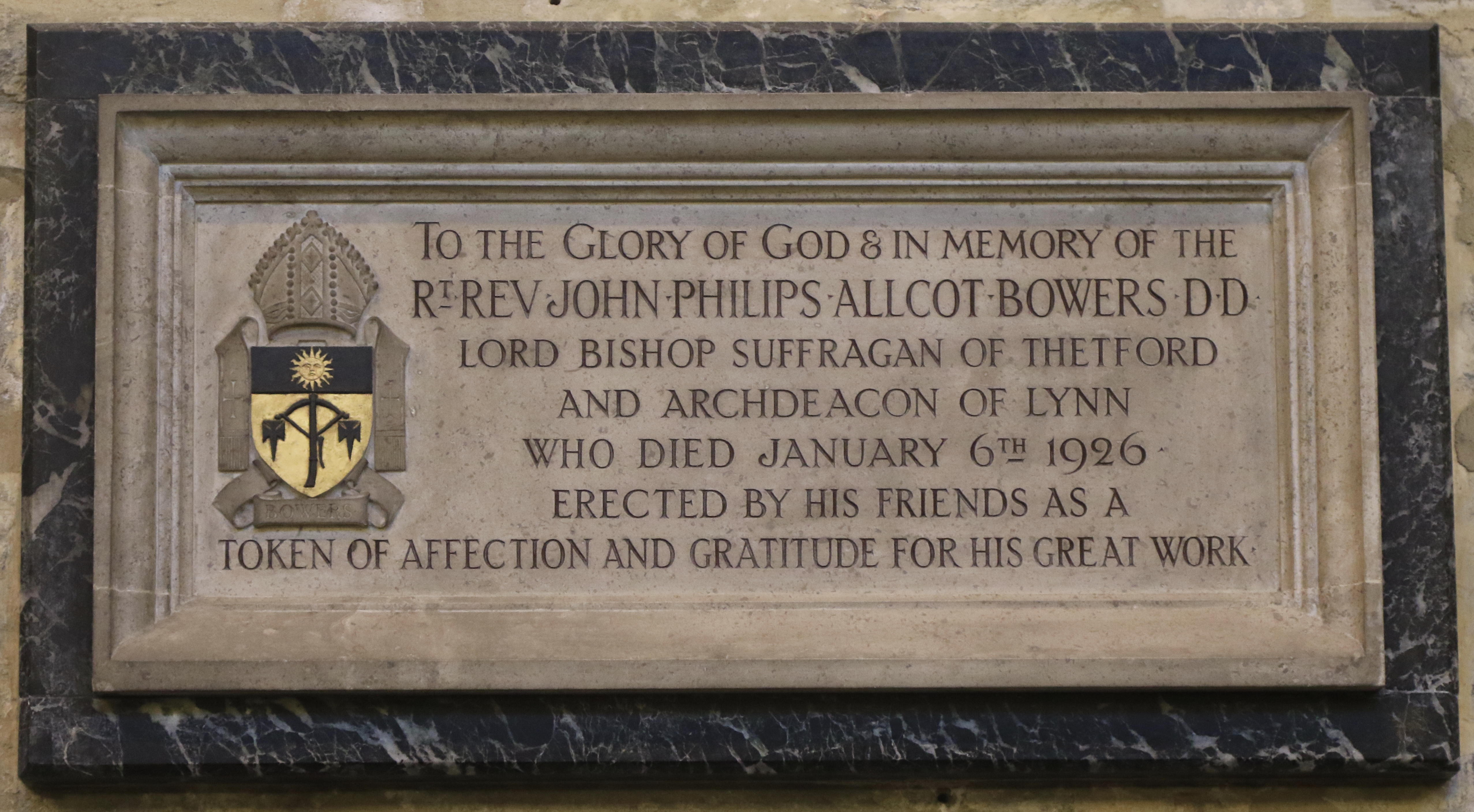 Rt. Revd. John Philips Allcot Bowers. DD, Lord Bishop Suffragan of Thetford and Archdeacon of Lynn, who died January 6th, 1926.